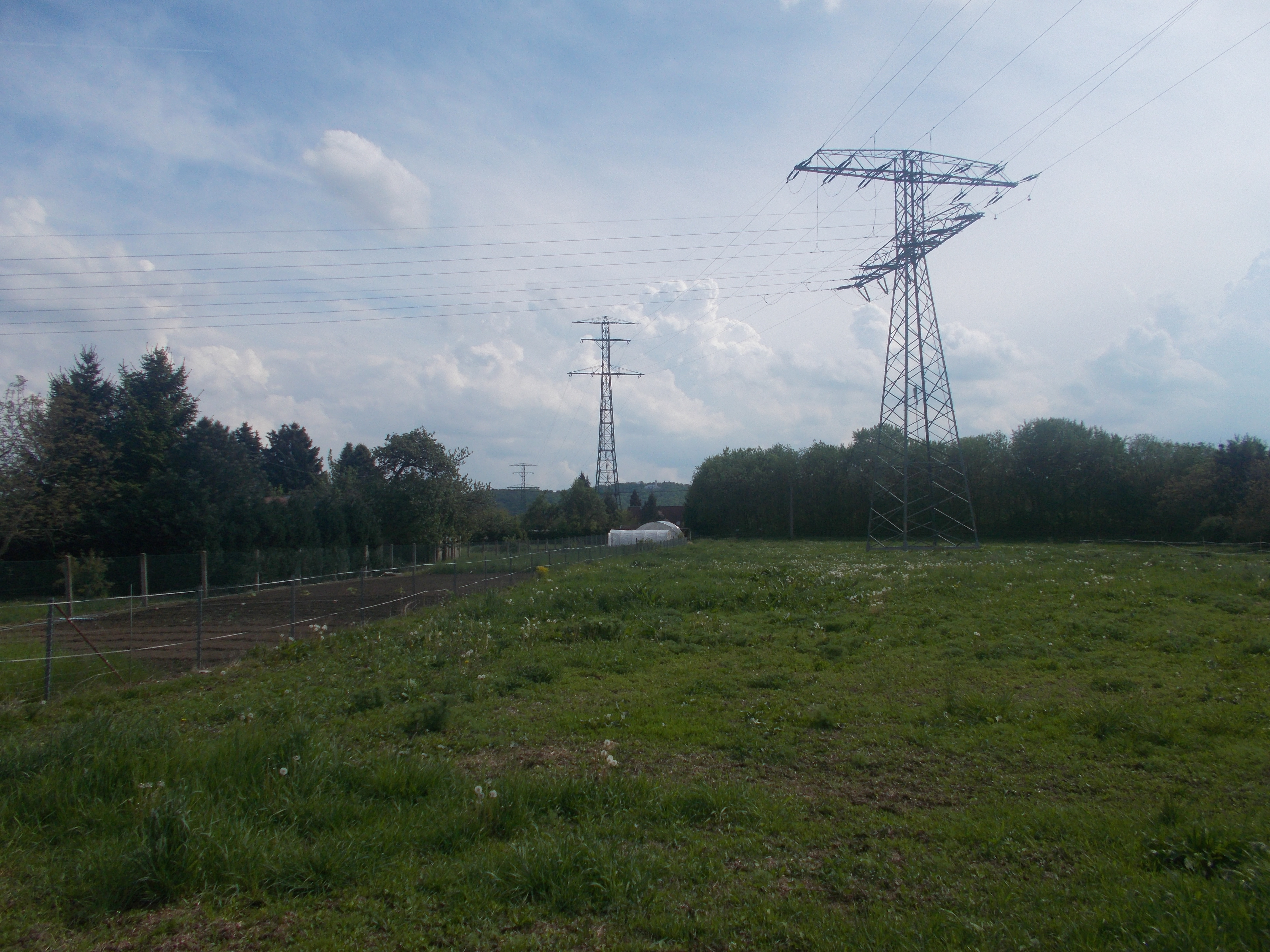 Pylon from the Niederwartha hydro power station across Elbe river